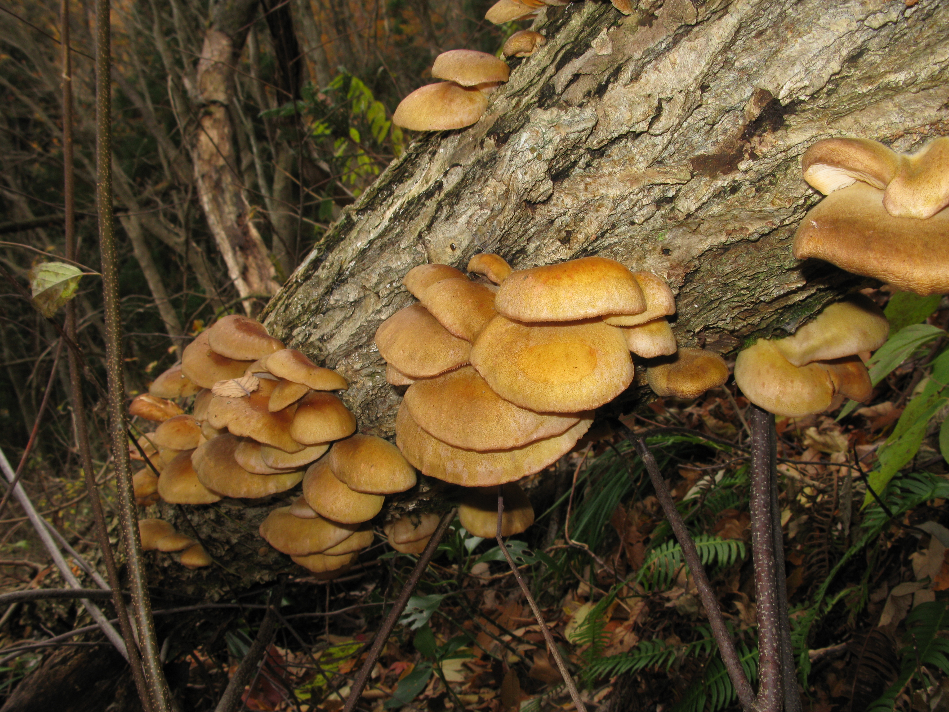 Sarcomyxa serotina, Aizu area, Fukushima pref., Japan